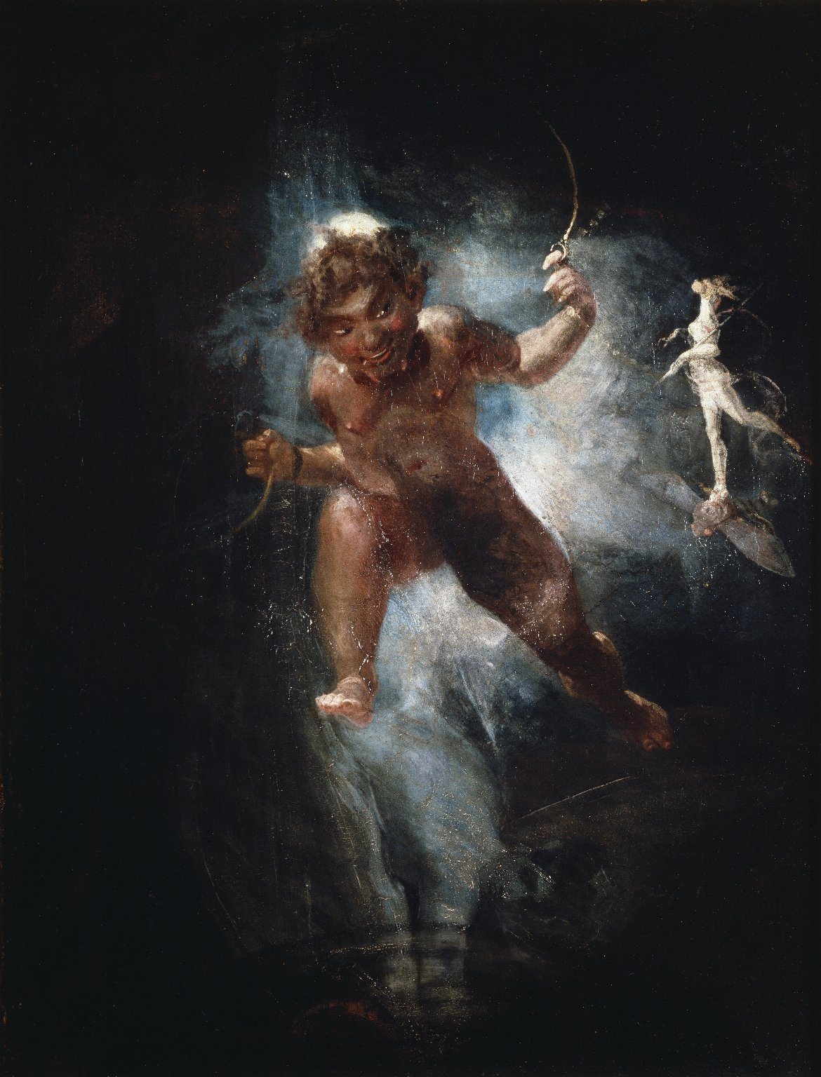 Puck, or Robin Goodfellow, from William Shakespeare's A Midsummer Night's Dream.